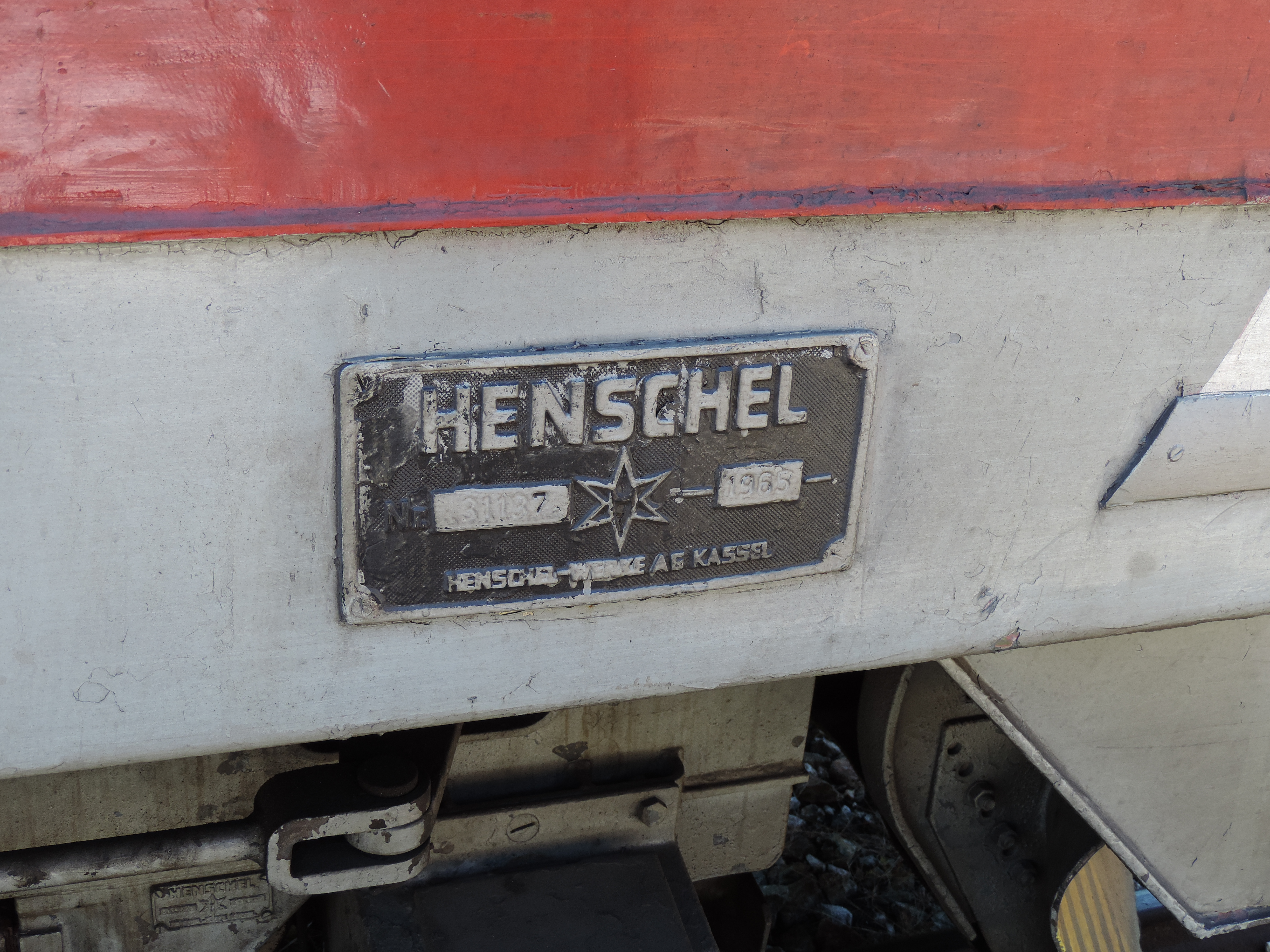 Henschel class 75, Septemvri-Dobrinishte narrow gauge line, Bulgaria.